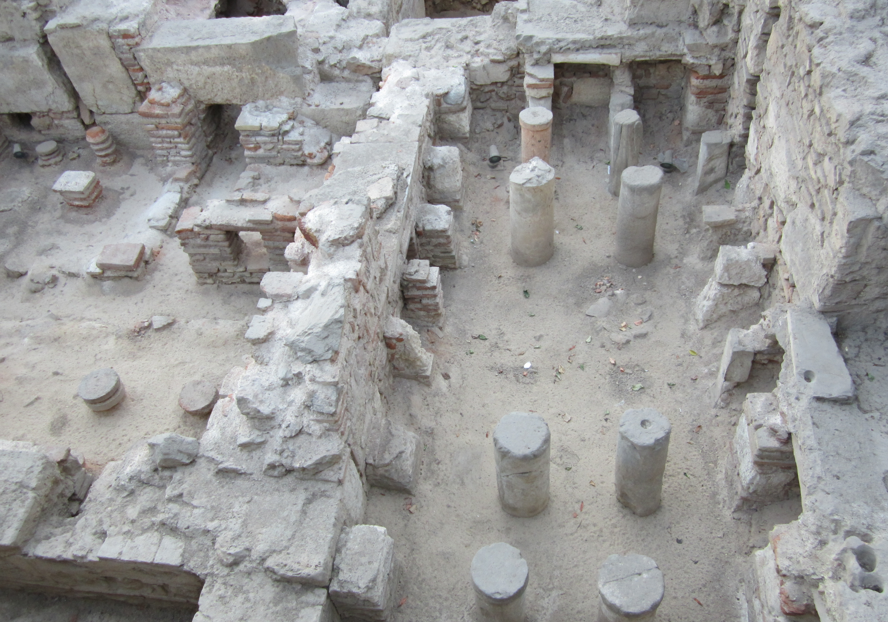 Archaeological site of Ancient Roman baths in Athens. Located inside the National Gardens near Zappeion, along Amalias Avenue.